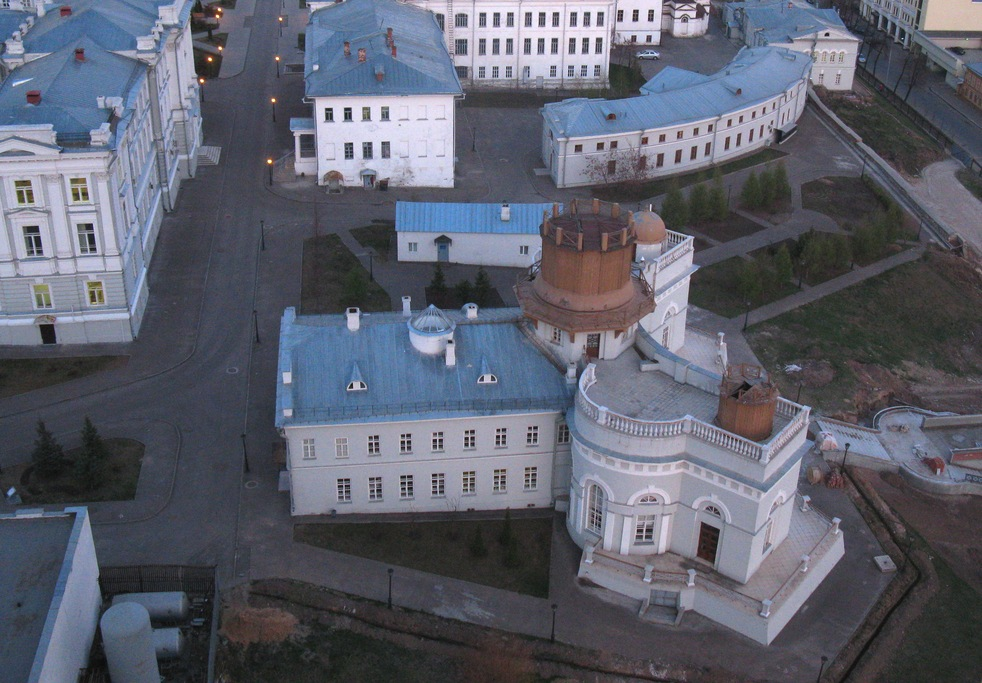 Astronomy Observatory of Kazan State University, Russia (1838)